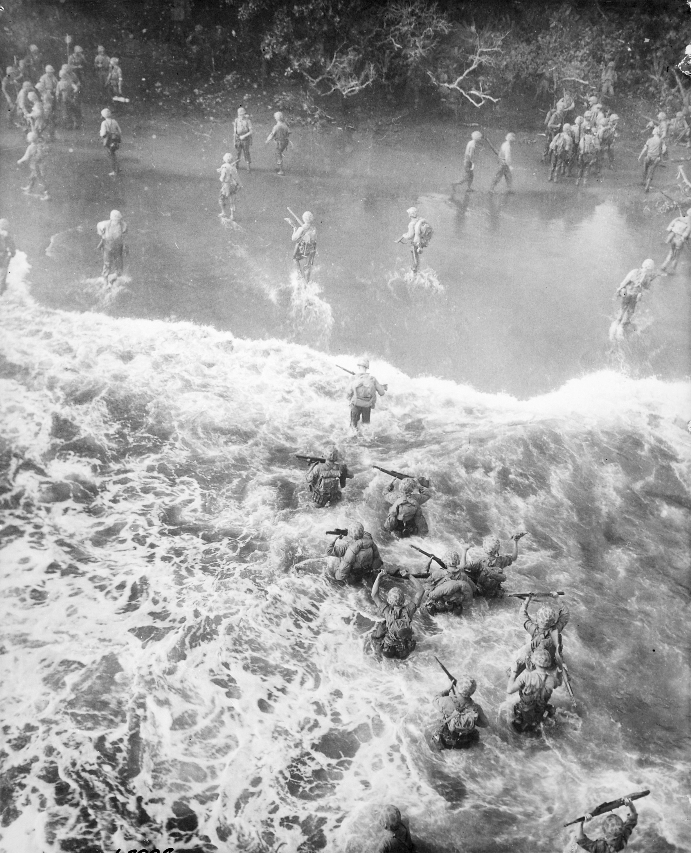 Original caption: "Marines hit three feet of rough water as they leave their LST to take the beach at Cape Gloucester, New Britain."